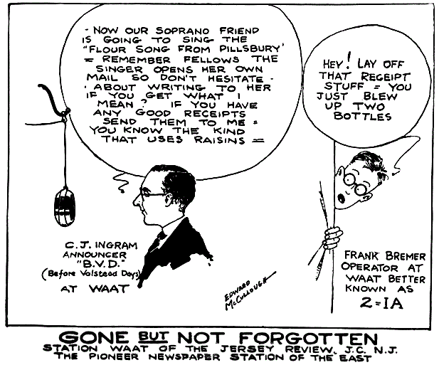 Cartoon references Frank Bremer's 1921-1922 Jersey City, New Jersey radio broadcasts, held in conjunction with the Jersey Review, over amateur station 2IA and temporary broadcasting station WAAT.